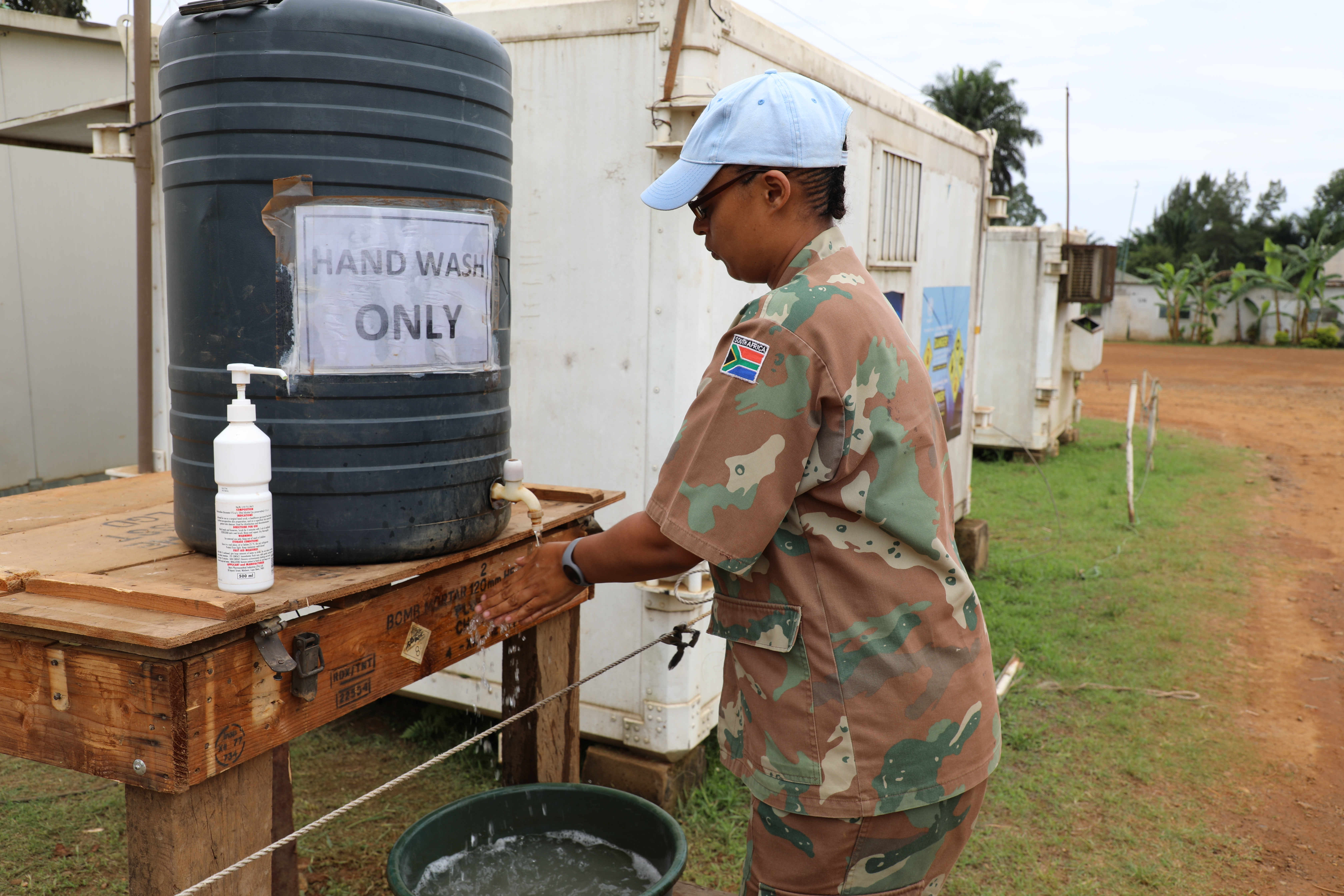 Beni, North Kivu, DRC: MONUSCO Force Intervention Brigade is taking all measures to ensure that staff and visitors to all Mission premises are safe from the Covid-19 pandemic. Troops have been highly sensitized on the various preventive measures. ‘’I follow every directive we have been given to ensure that we remain safe’’, says Caporal Laverne Bott from the South African contingent. Photo MONUSCO/Michael Ali